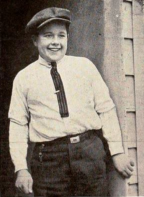 American child actor Buddy Messinger on page 25 of the December 2, 1922 Exhibitor's Trade Review.